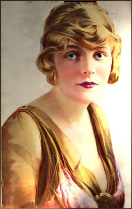 Blanche Sweet on the cover of Photoplay Magazine, April 1915.